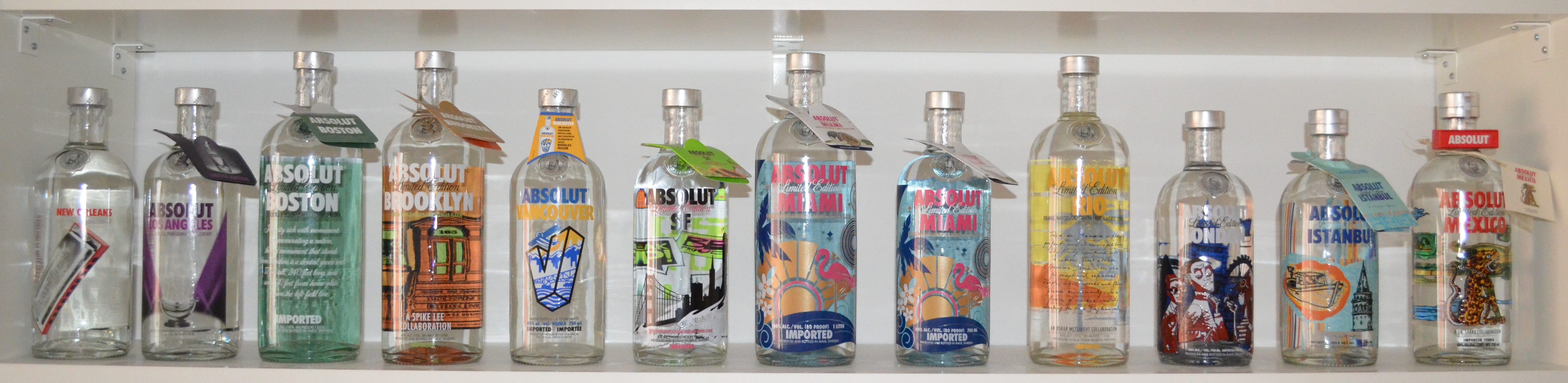 From left to right: Absolut New Orleans, Absolut Los Angeles, Absolut Boston, Absolut Brooklyn, Absolut Vancouver, Absolut SF, Absolut Miami, Absolut Rio, Absolut London, Absolut Istanbul, Absolut Mexico